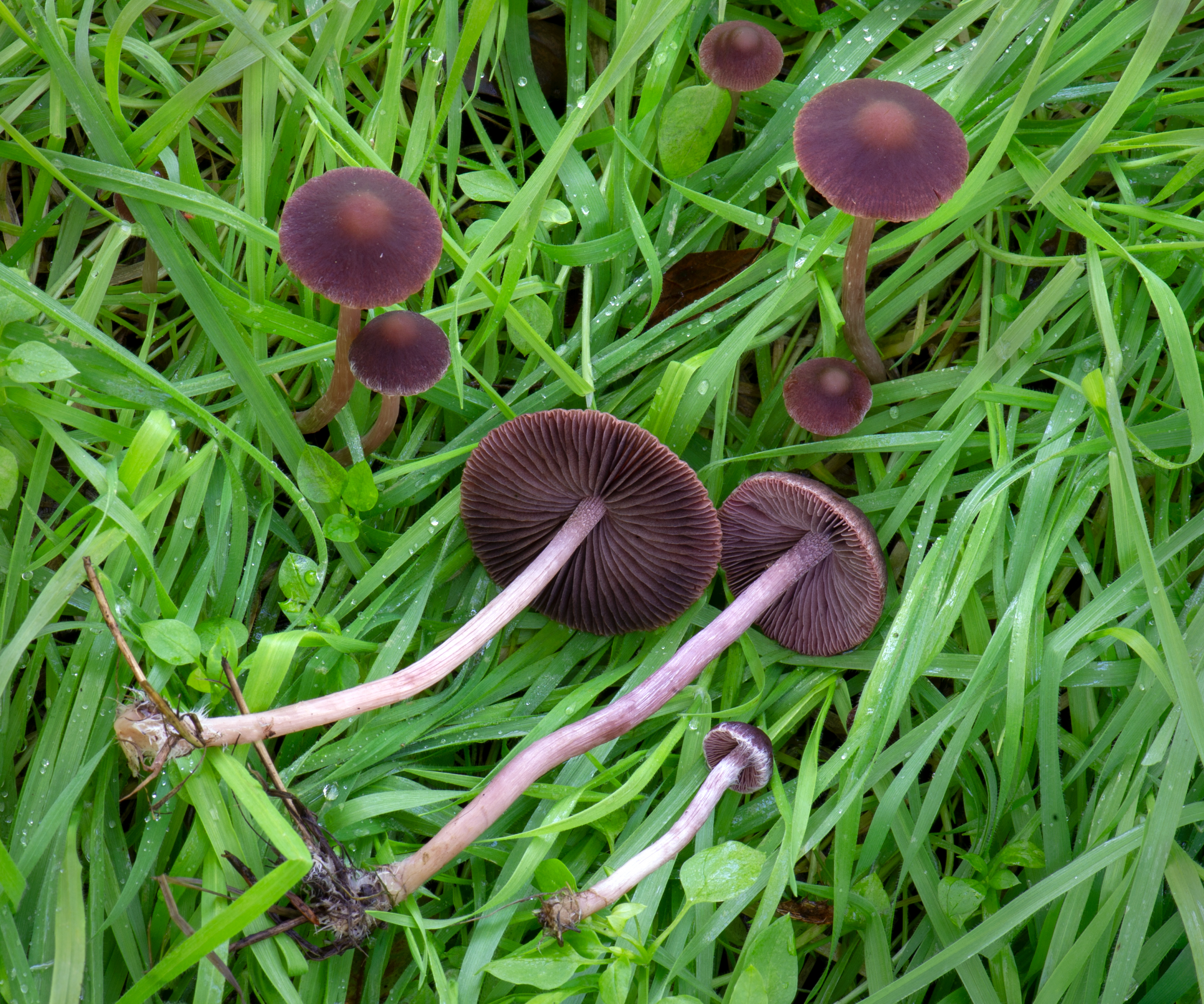 Psathyrella bipellis from Felicita Park, Escondido, California, USA